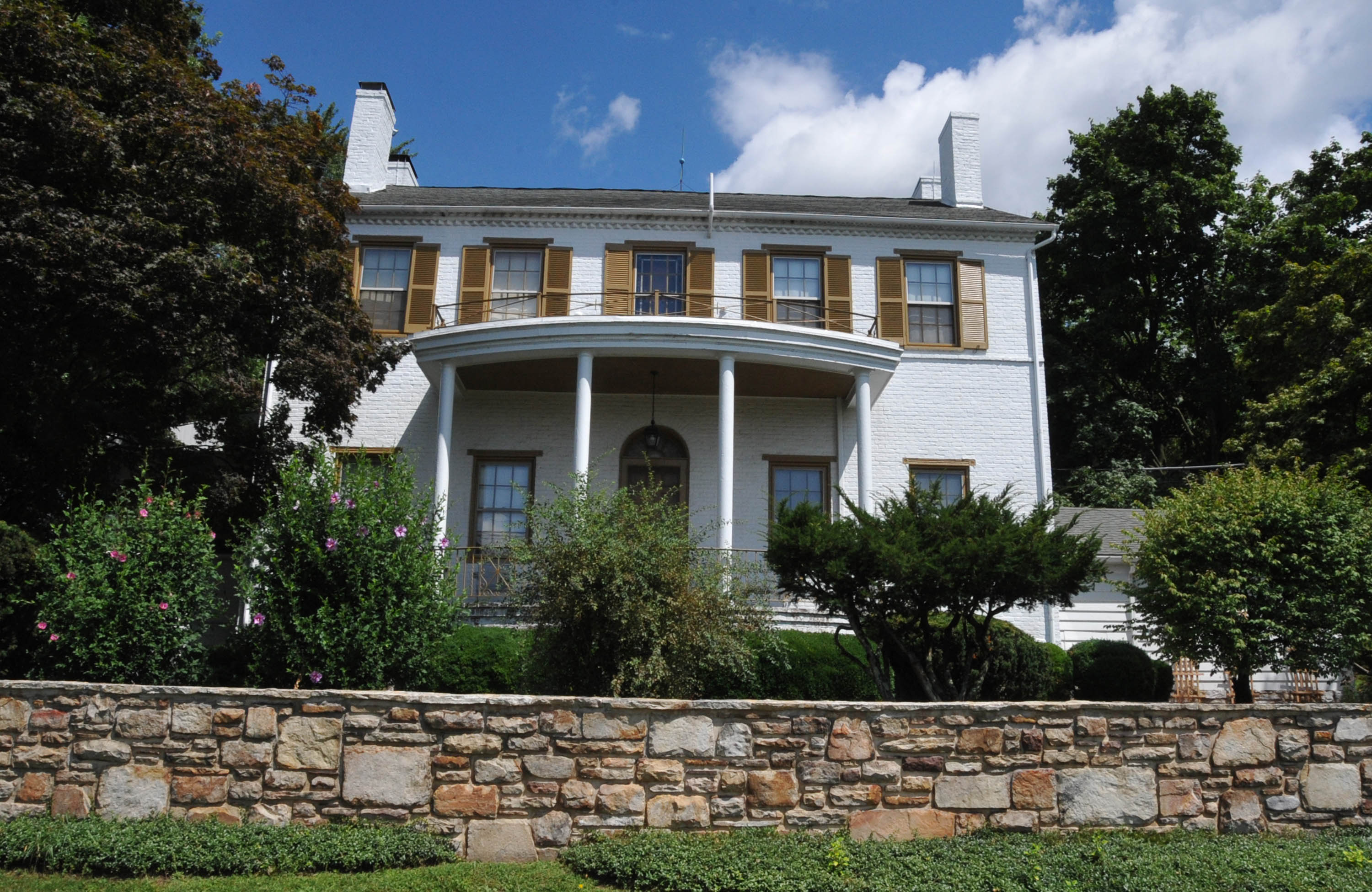 1812; NOW IS A BED AND BREAKFAST